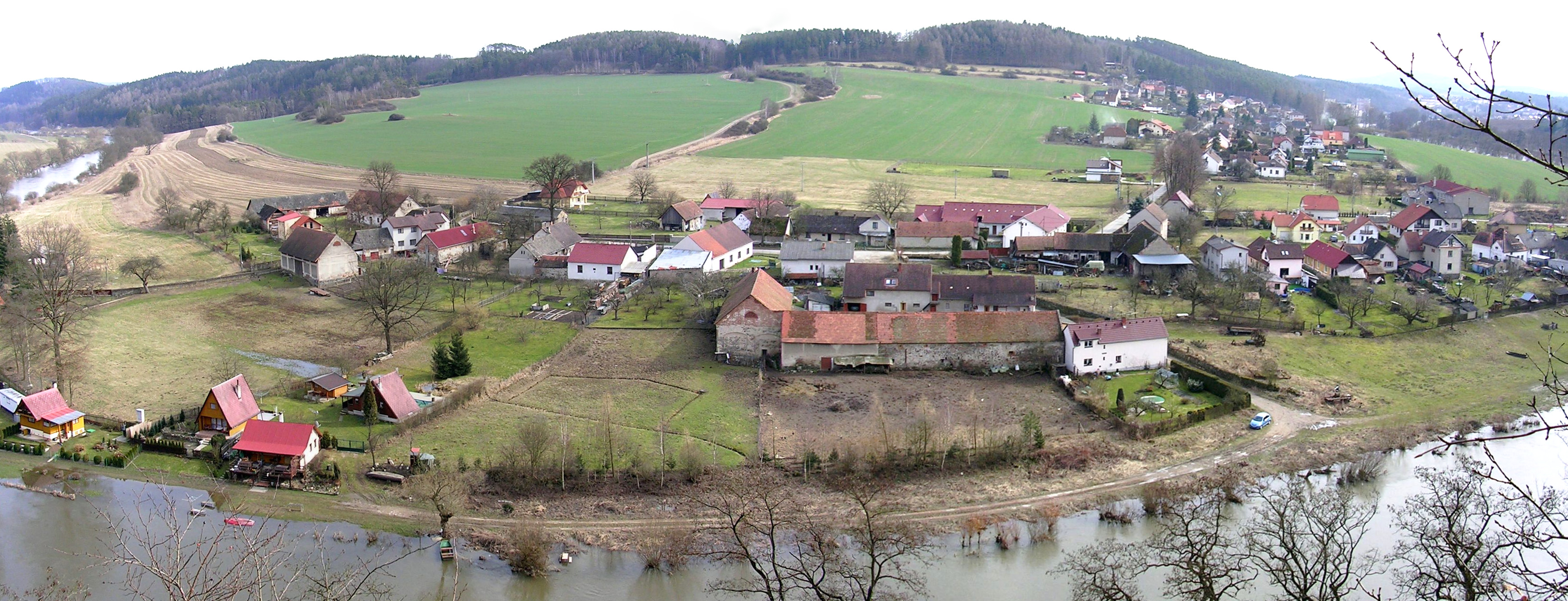 Týnec nad Sázavou-Zbořený Kostelec, the Czech Republic. View from a castle ruin.